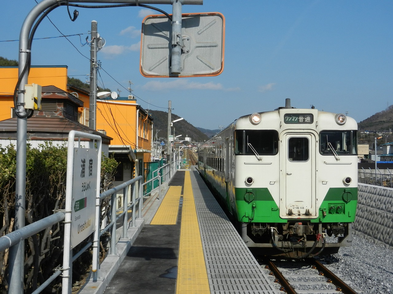 JR East Ishinomaki line Urashuku station platform